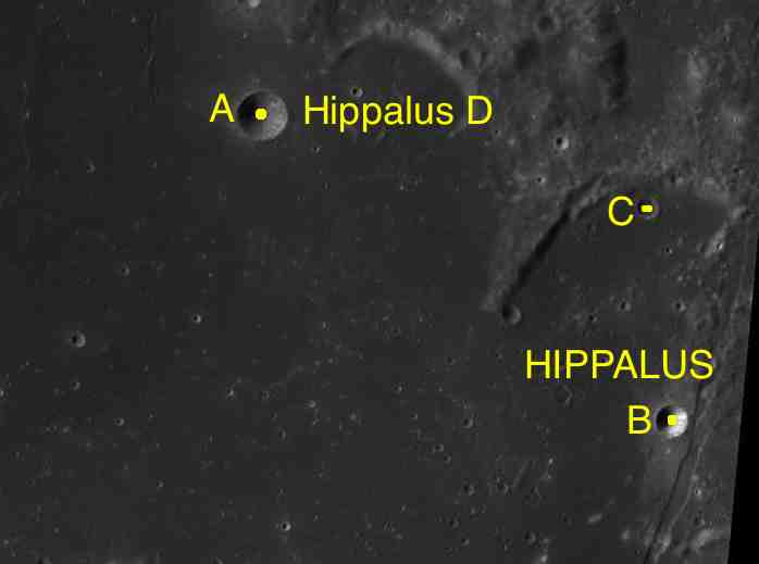 Part of the chart LAC-93 used for the presentation